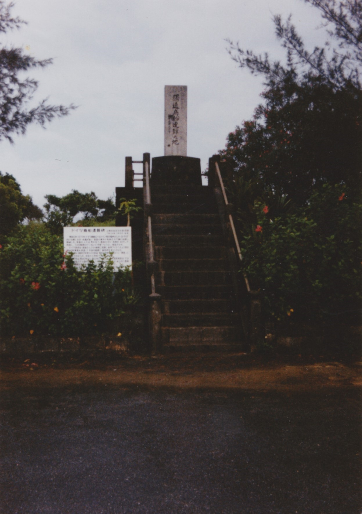 Memorial (1930ies) for rescue of German shipwrecked sailors 1873